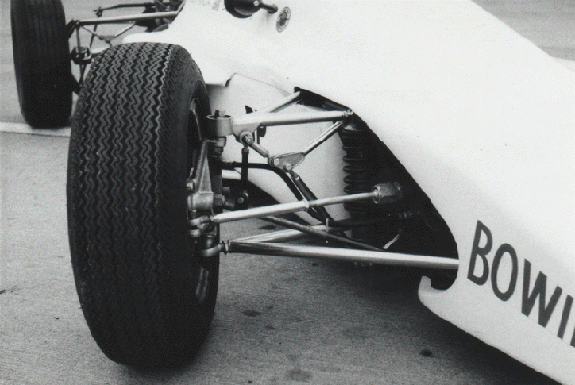 Bowin P6 - Bowin Cars Personal Collection.